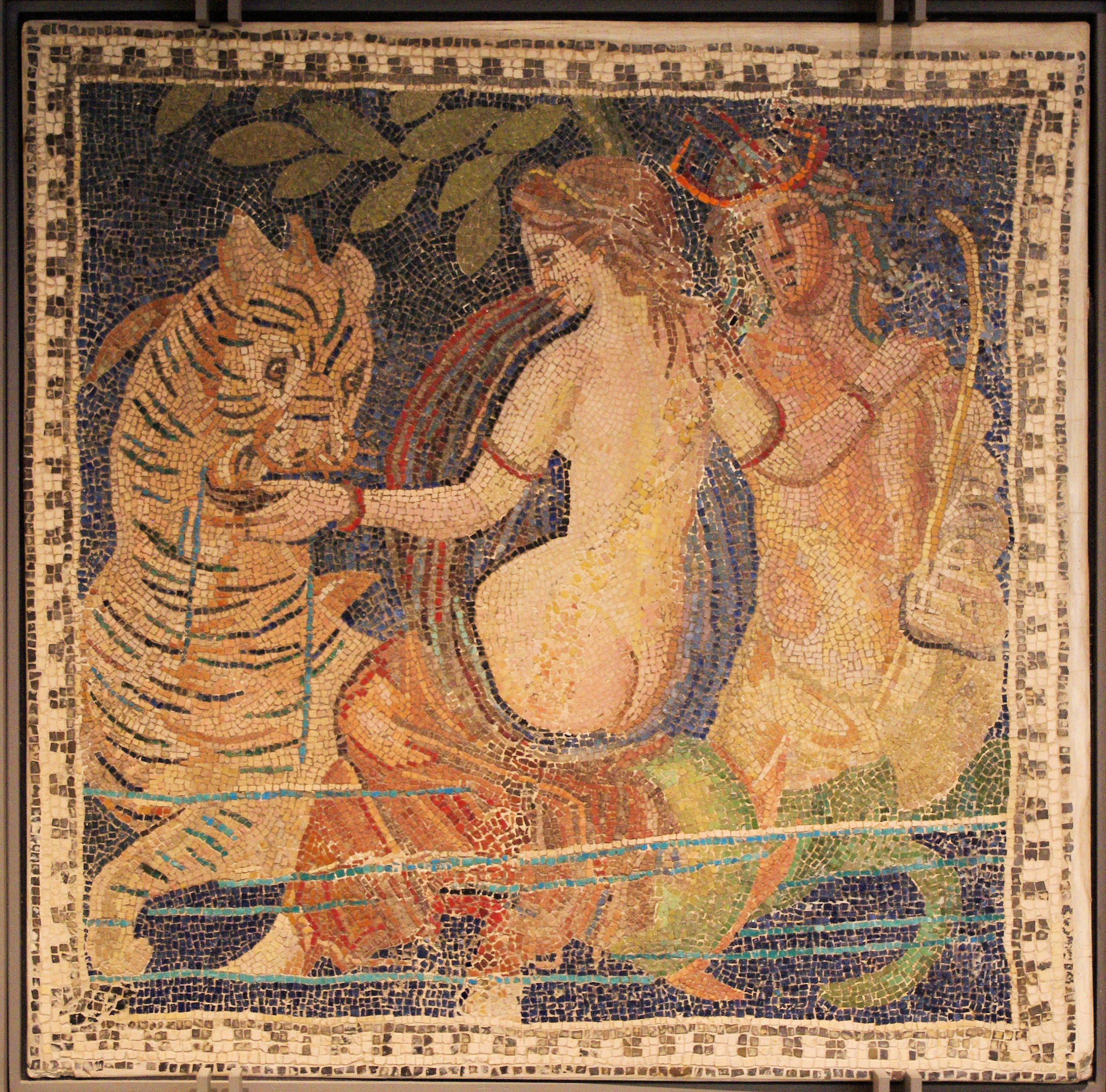 2nd Century BC Ancient Roman mosaic of Triton with a Nereid and a Sea Monster (that looks like a Sea Tiger) from the Lyon Musee des Beaux Arts